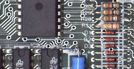 Sinclair 48K ZX Spectrum motherboard (Issue 3B. 1983) (Manufactured 1984)